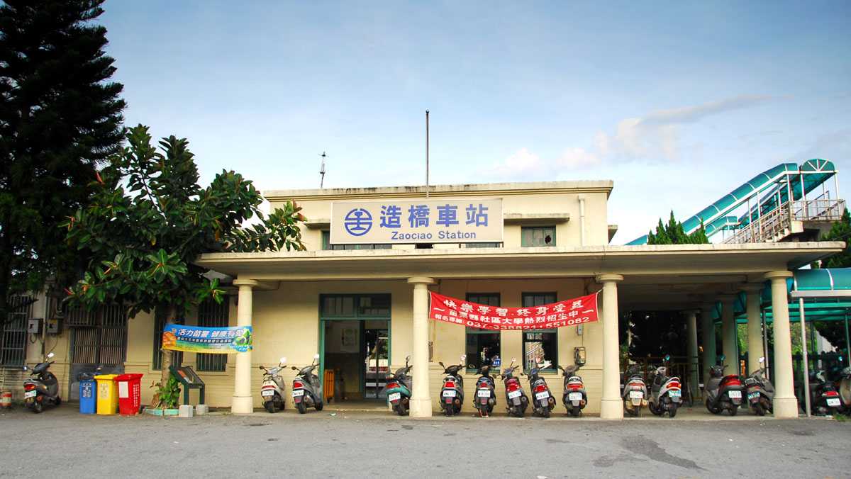 ZaoCiao Station is a local train station of Taiwan's Western main rail line. It's the main station of ZaoCiao Township, Miaoli County.